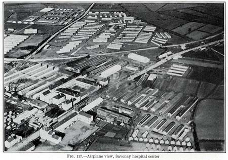 Airplane view, Savenay Hospital Center, circa 1918